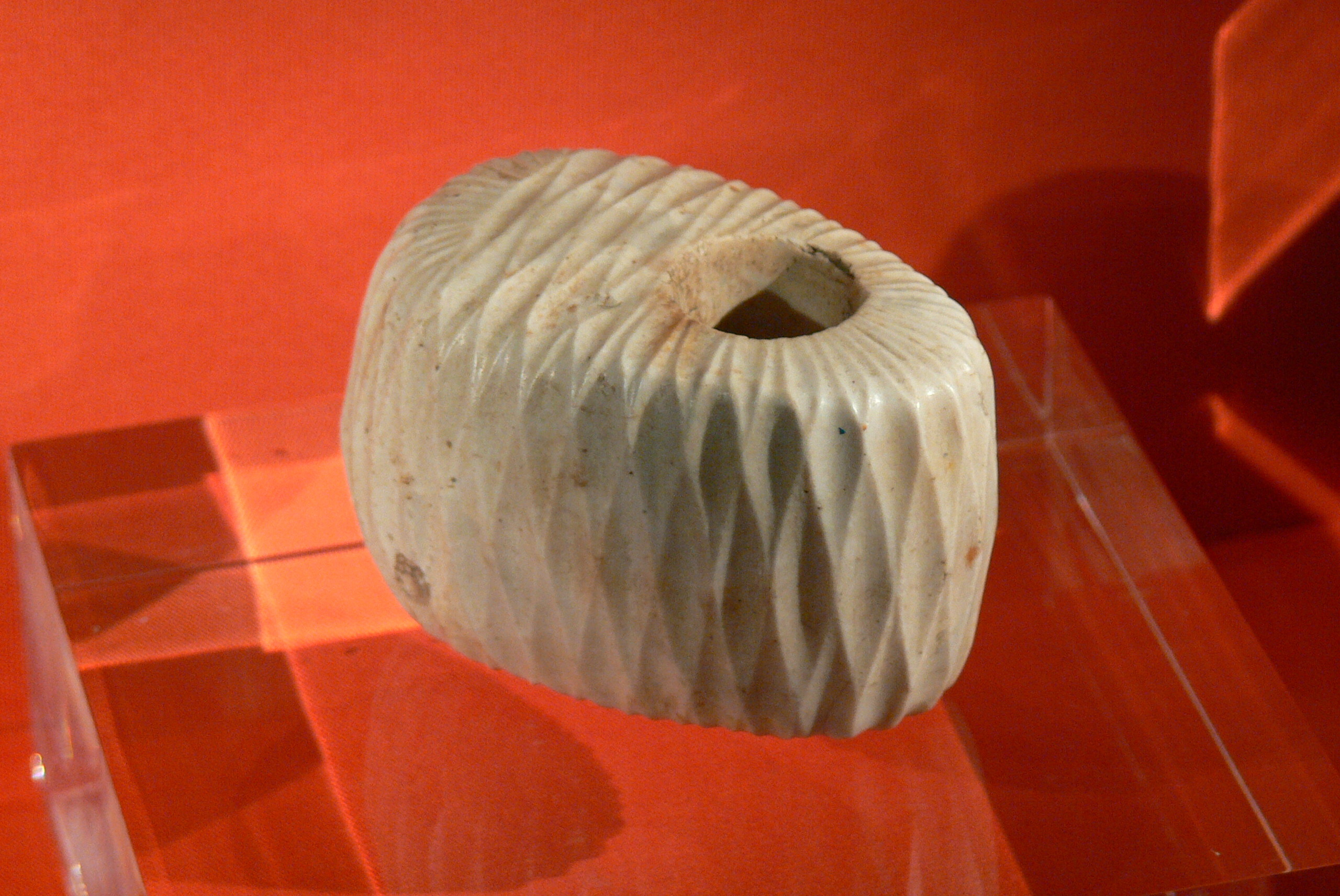 National Museum of Wales ( Cardiff ). Neolithic flint mace head ( 3.000 BC - 2.500 BC ) from Maesmor, Denbighshire.